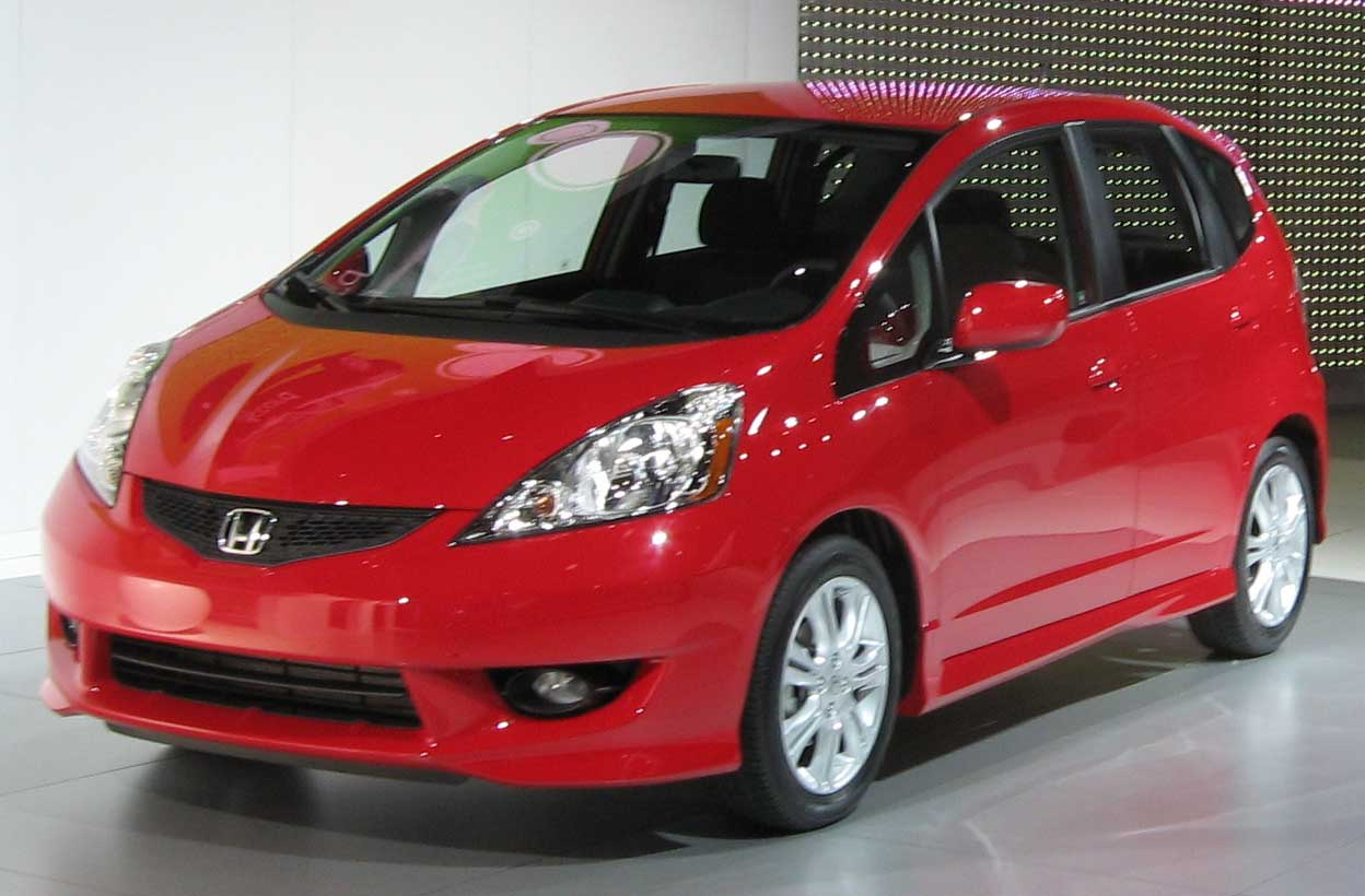 2009 Honda Fit photographed at the 2008 New York Auto Show.